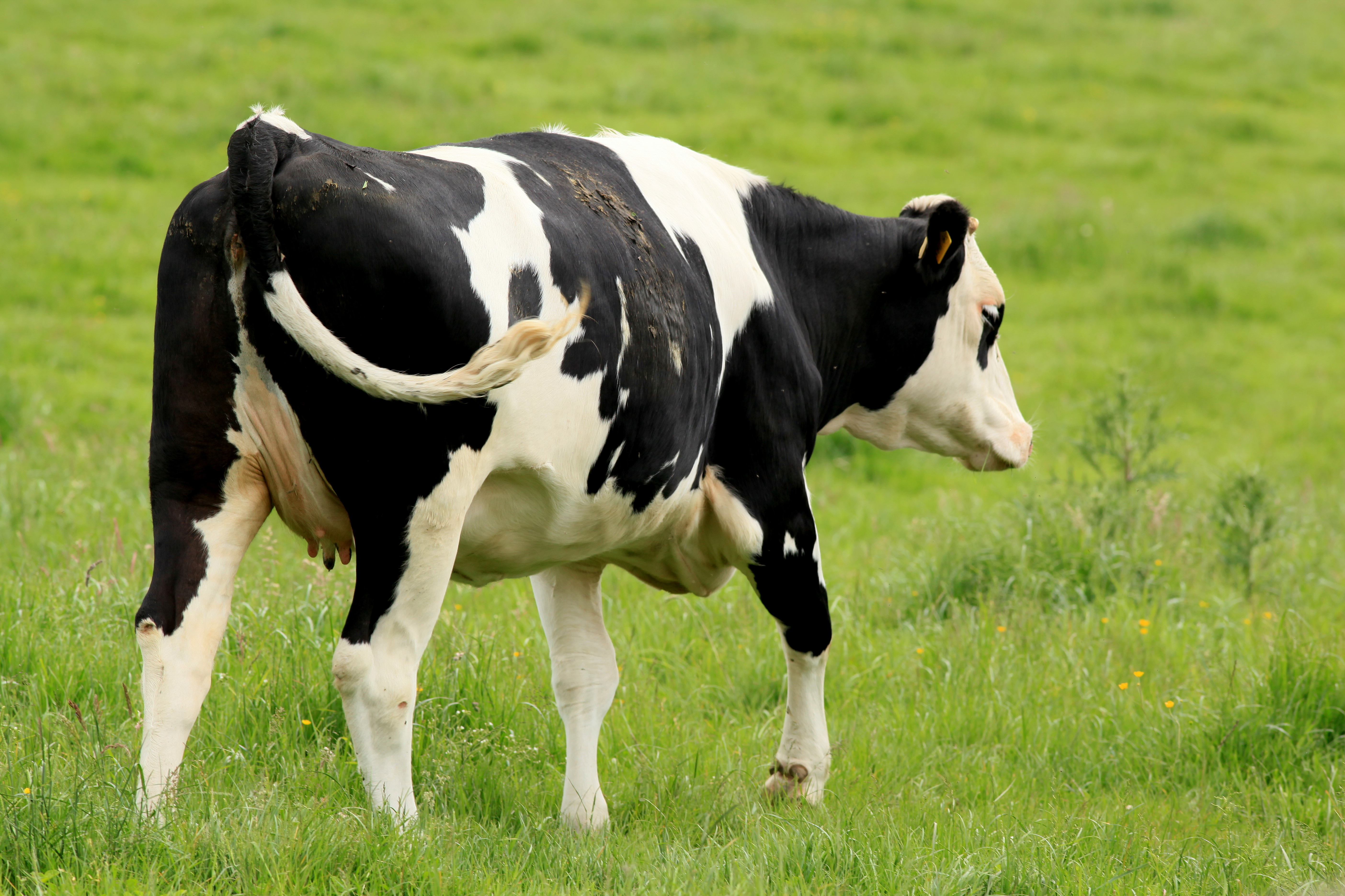 Young female cattle on a meadow in Radevormwald